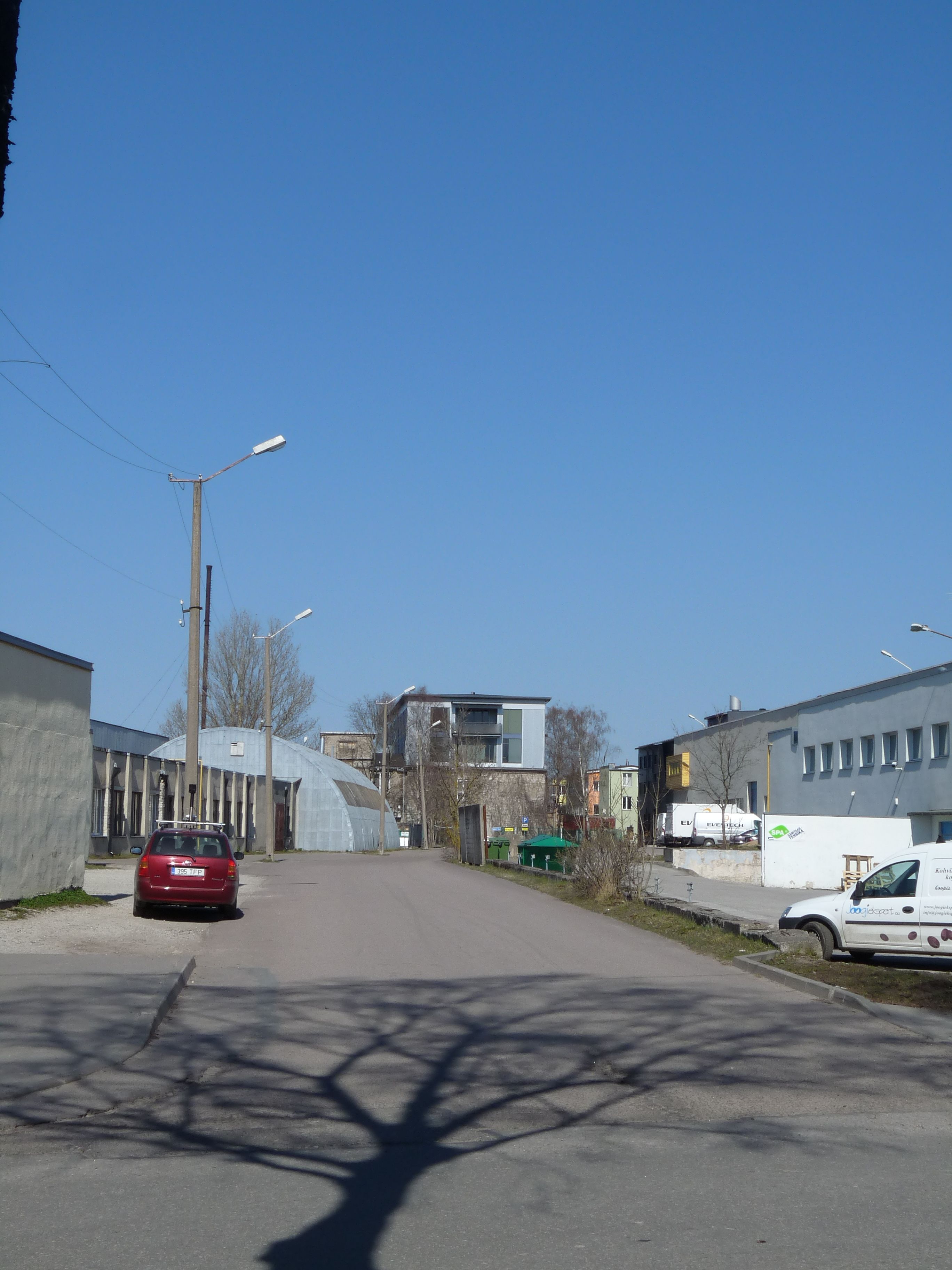 Käru street in Tallinn, Estonia